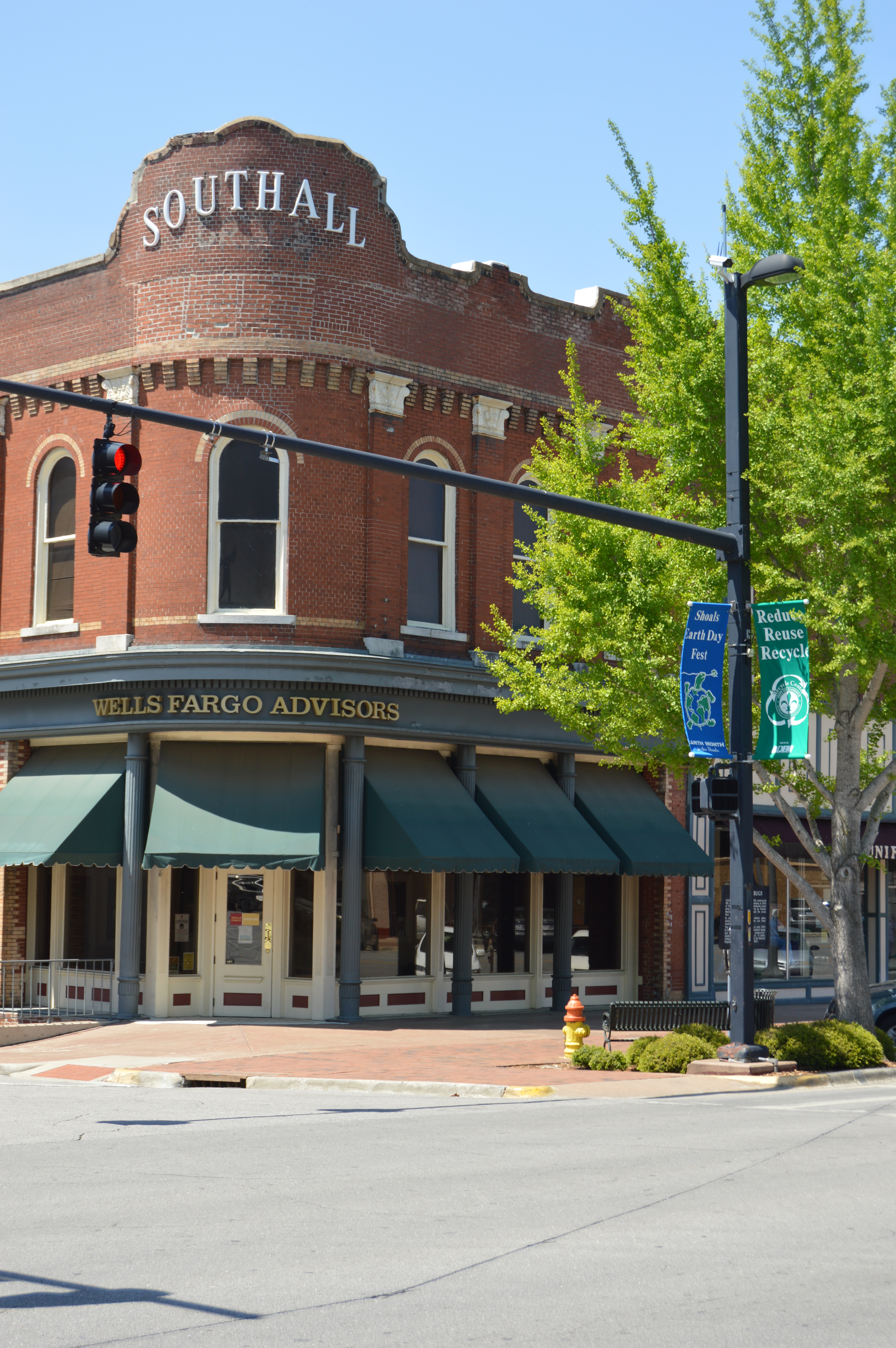 Front of the Southall Drugs store, located at 201 N. Court Street in Florence, Alabama, United States. Built in 1900, it is listed on the National Register of Historic Places, and it is part of a Register-listed historic district, the Downtown Florence Historic District.